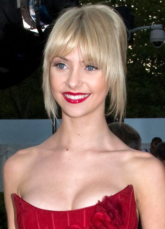 Taylor Momsen at the Metropolitan Opera opening in 2008. Rubenstein, photographer Martyna Borkowski